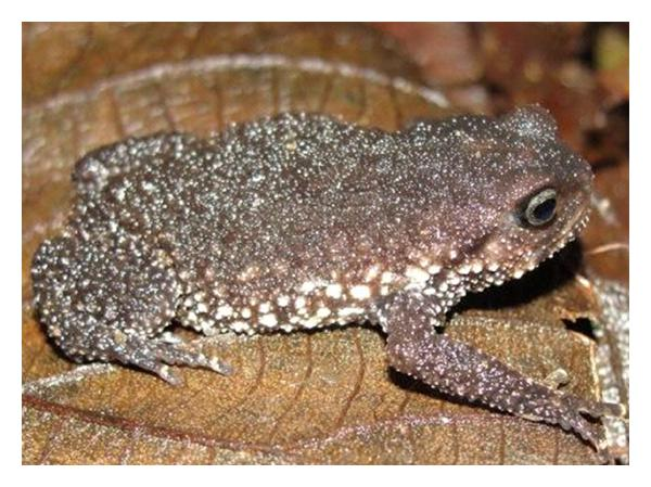 A life photograph of Callulina dawida in the wild in Ngangao forest P. Malonza